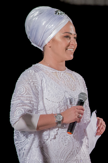 Rabanit Ronit Barash